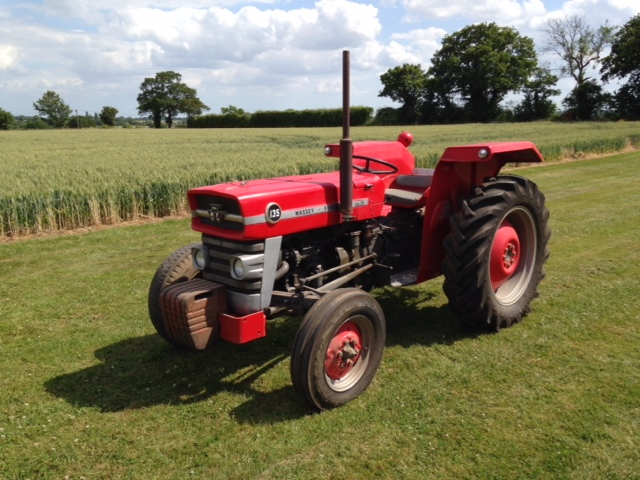 A 1965 Massey Ferguson MF135 - angle view